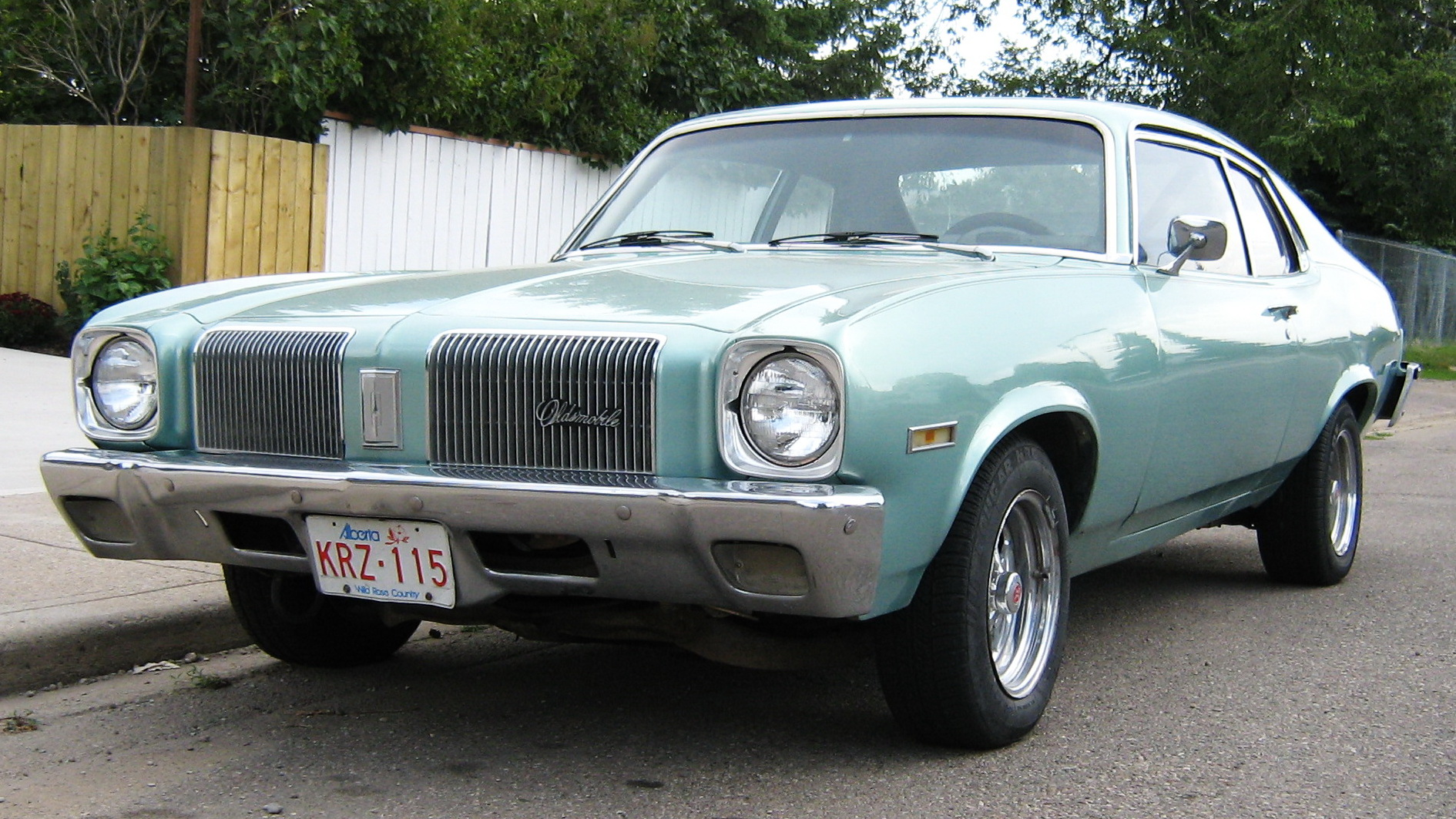 1973 Oldsmobile Omega coupe